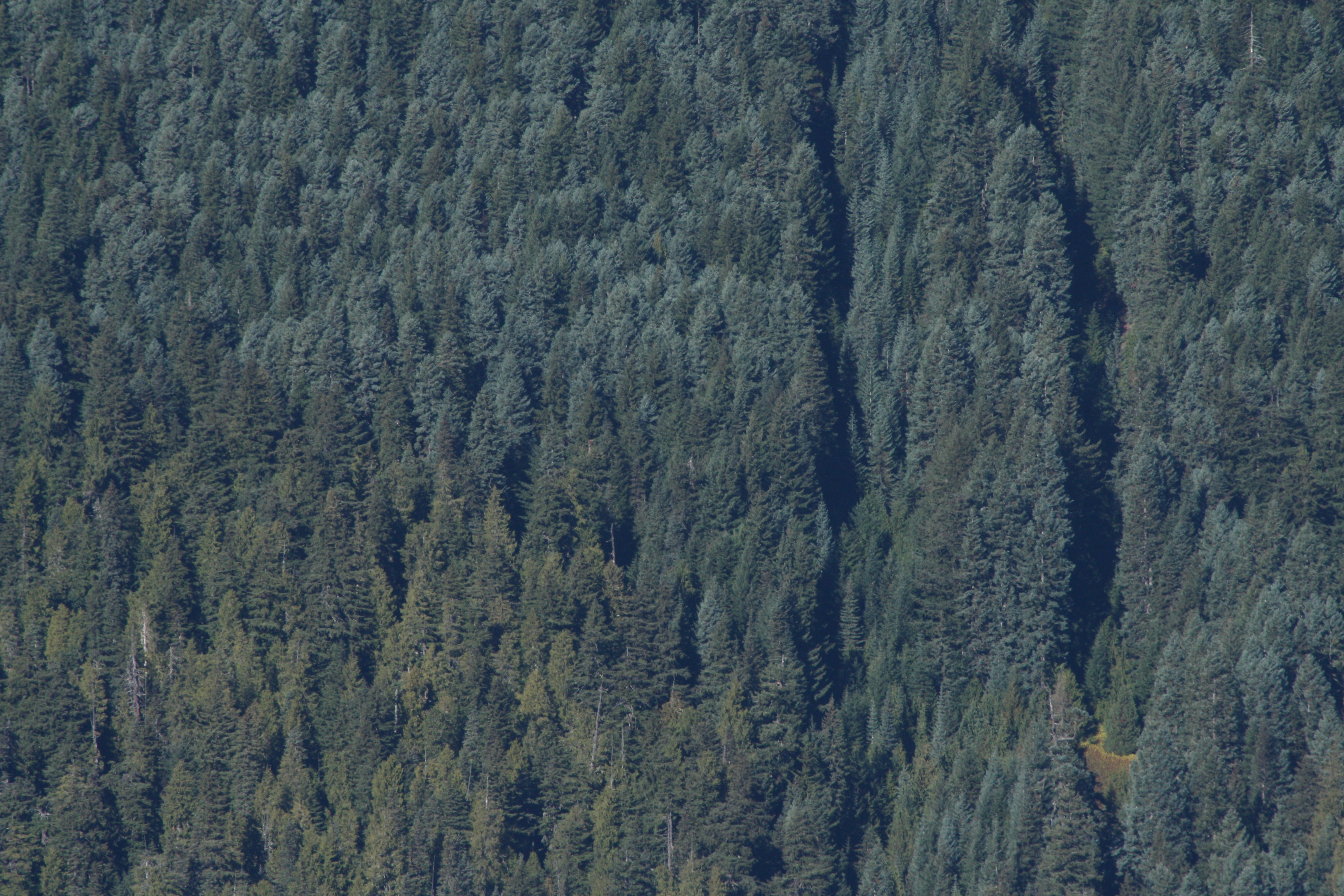 Noble Fir forest